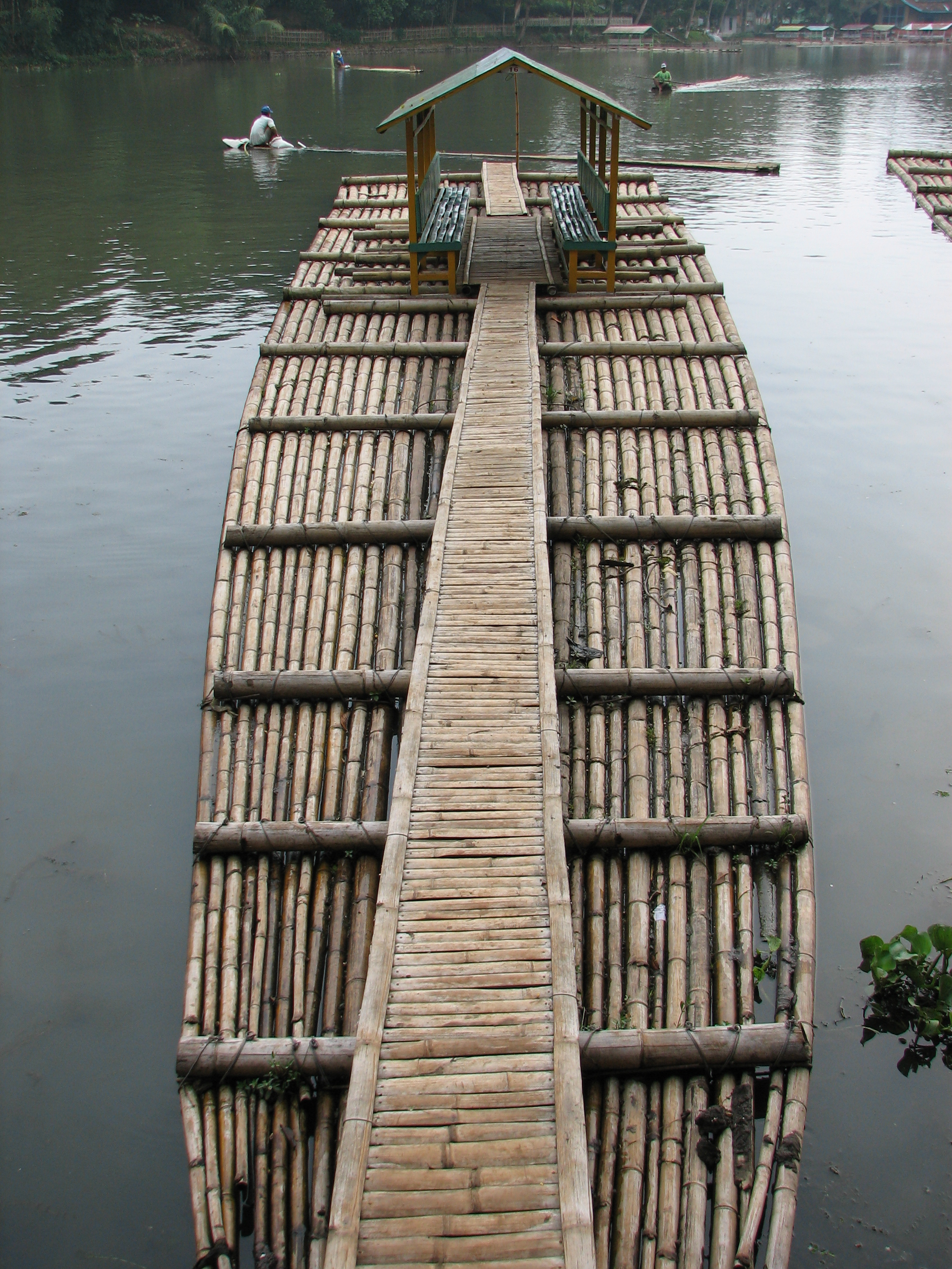 boat